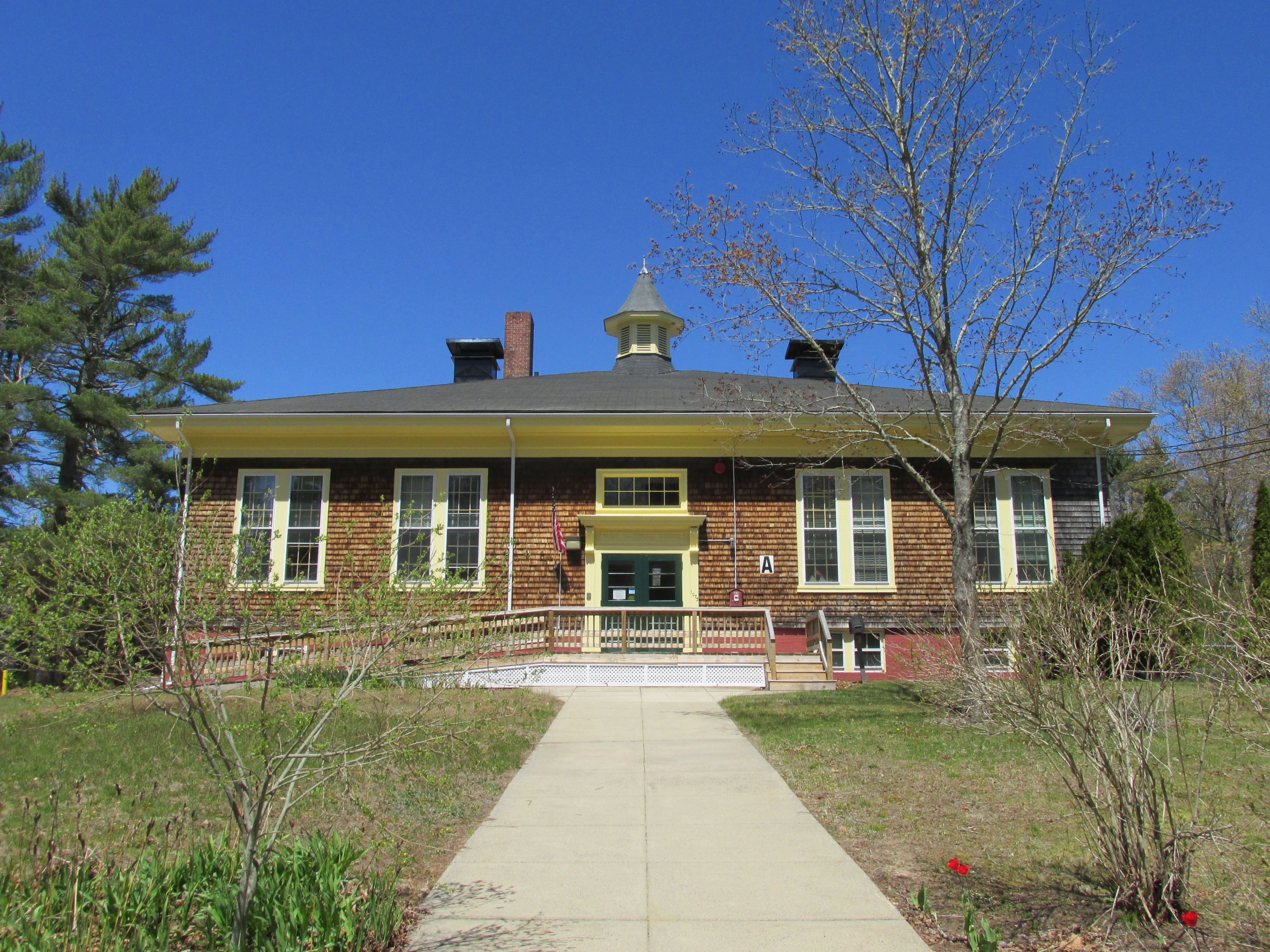 West Wareham School, West Wareham Massachusetts - 2013